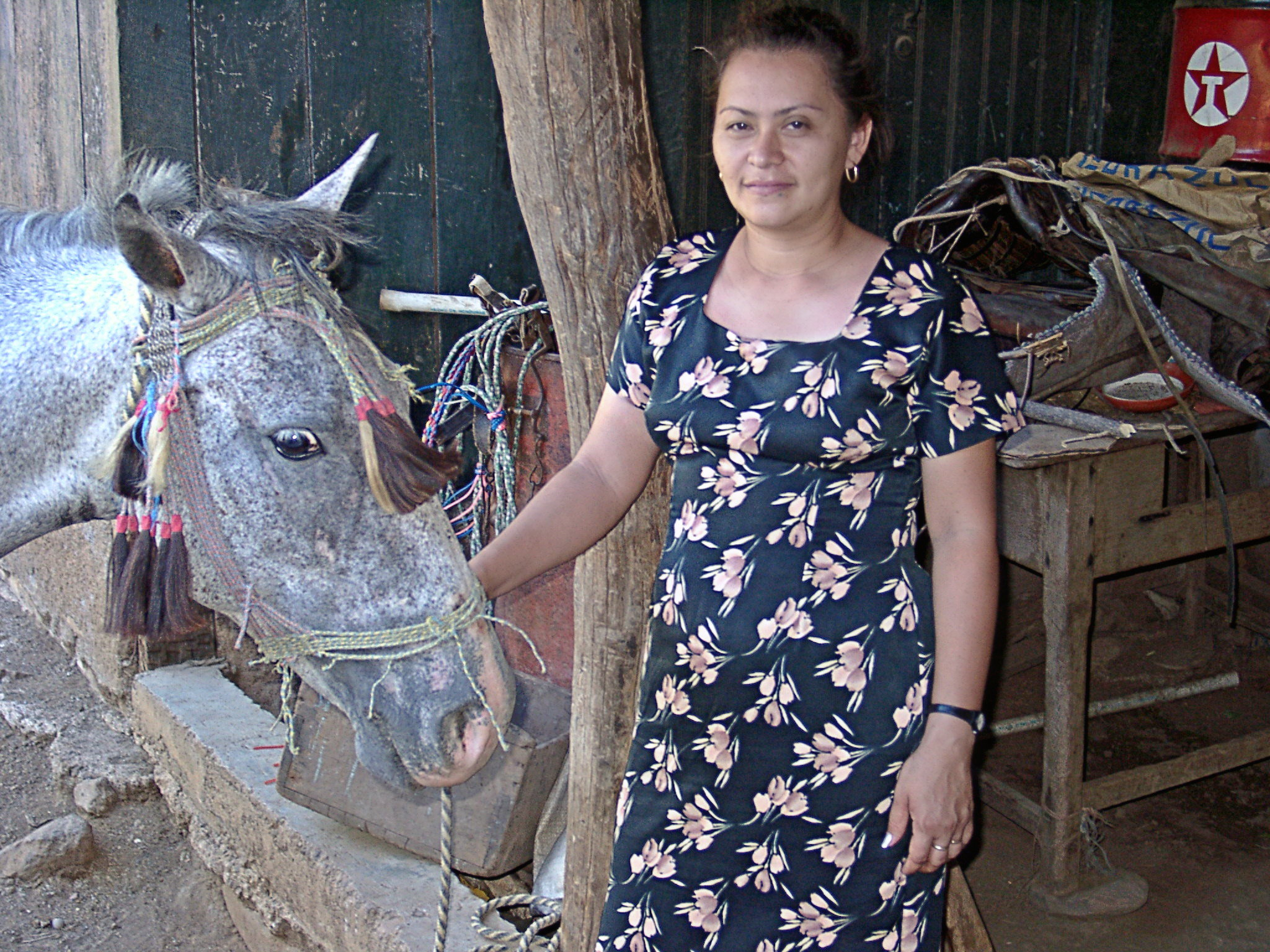 This horse brought this woman to San Ramon over 13 months ago for their annual August 31st festival.